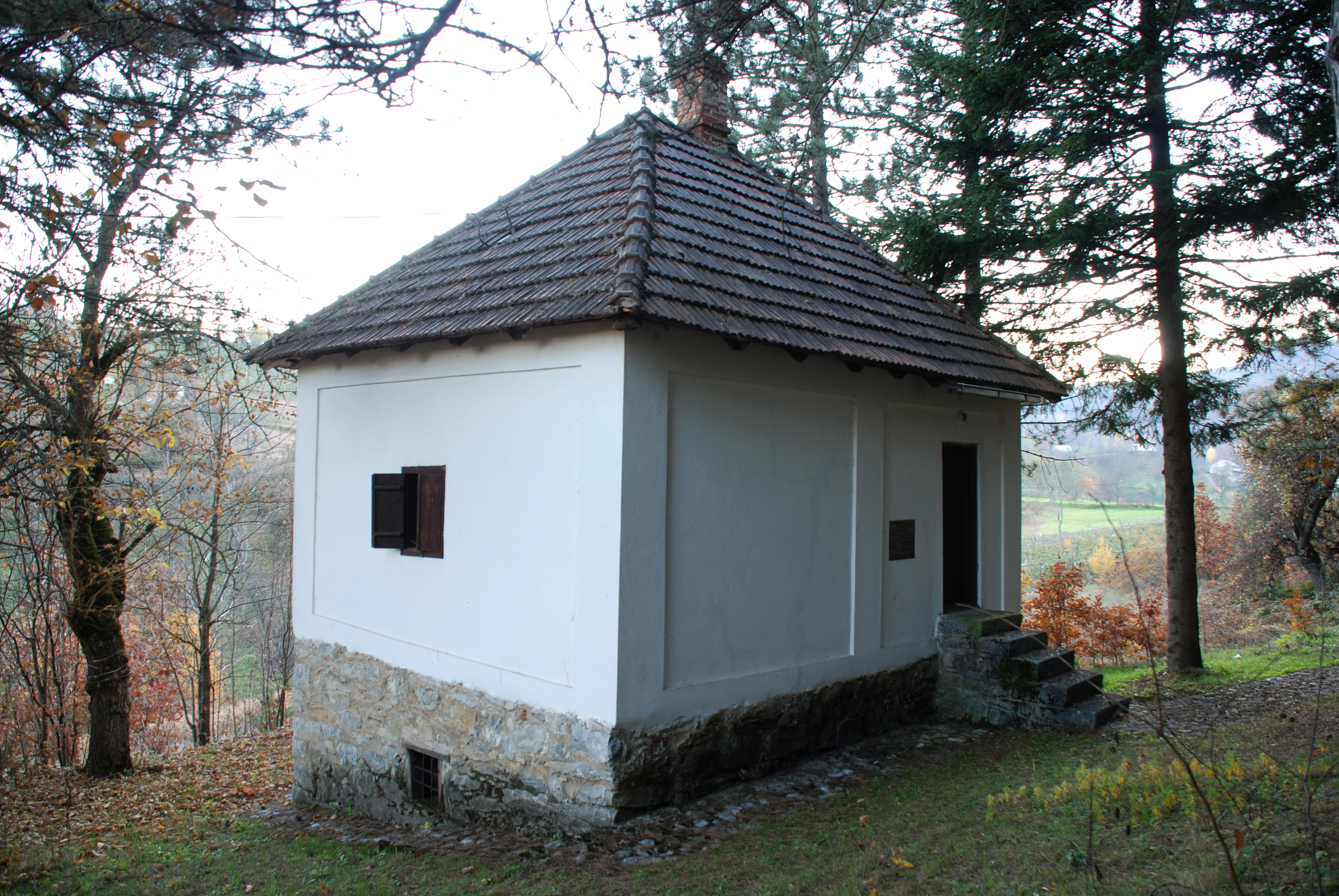 House of national hero Stevan Čolović in Radobuđa, Arilje